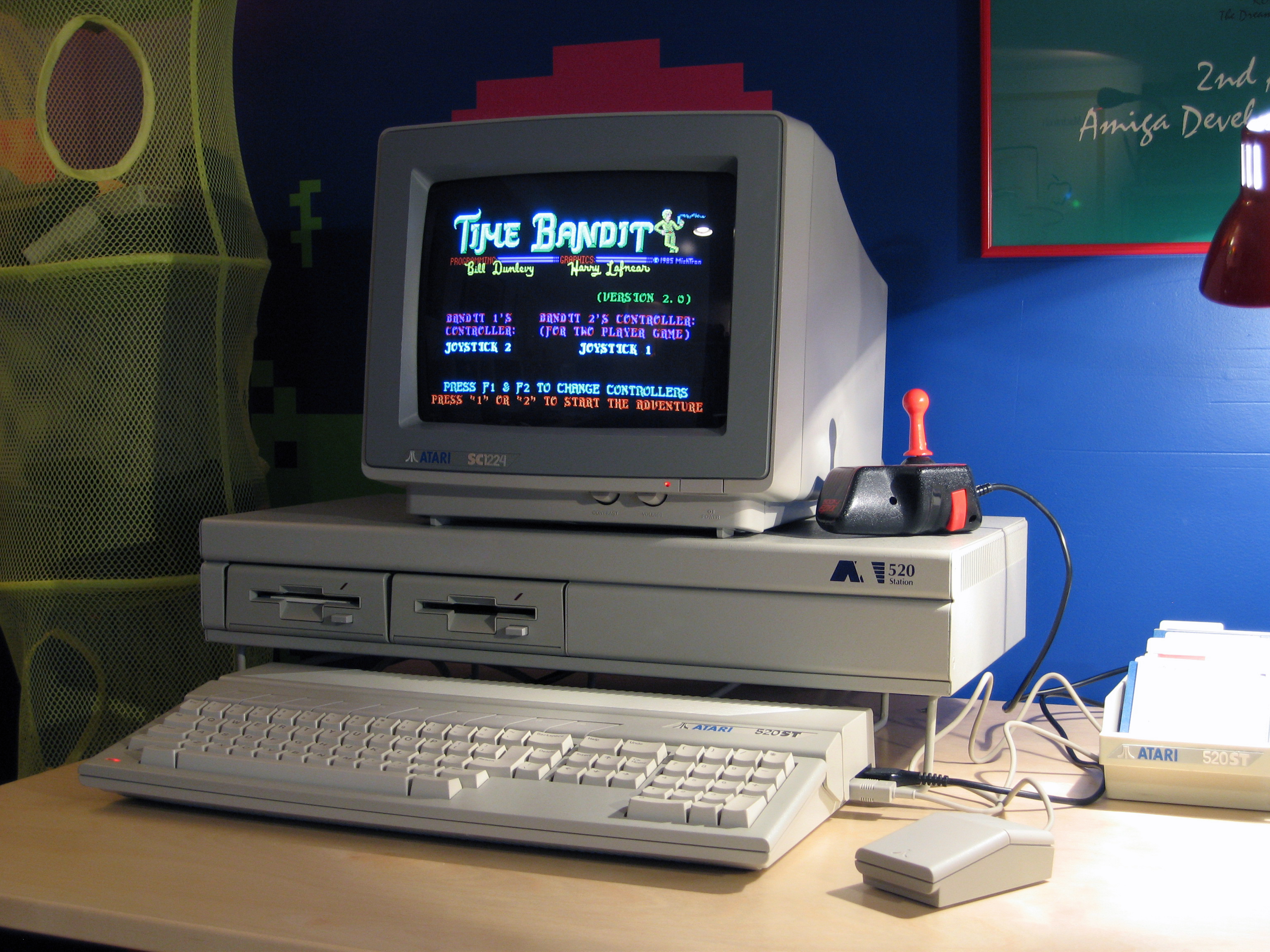 My mint-condition Atari 520ST system.